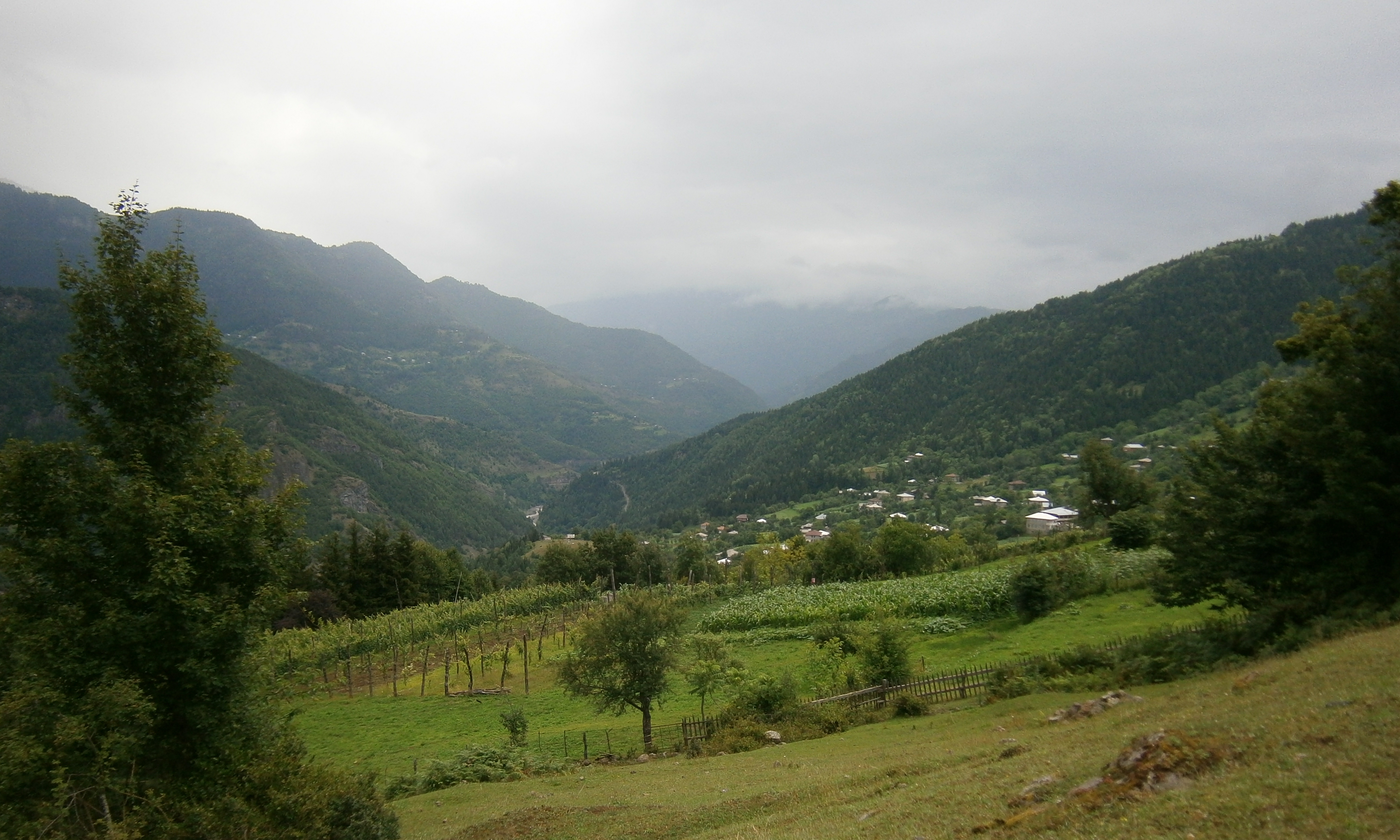 Nenia.